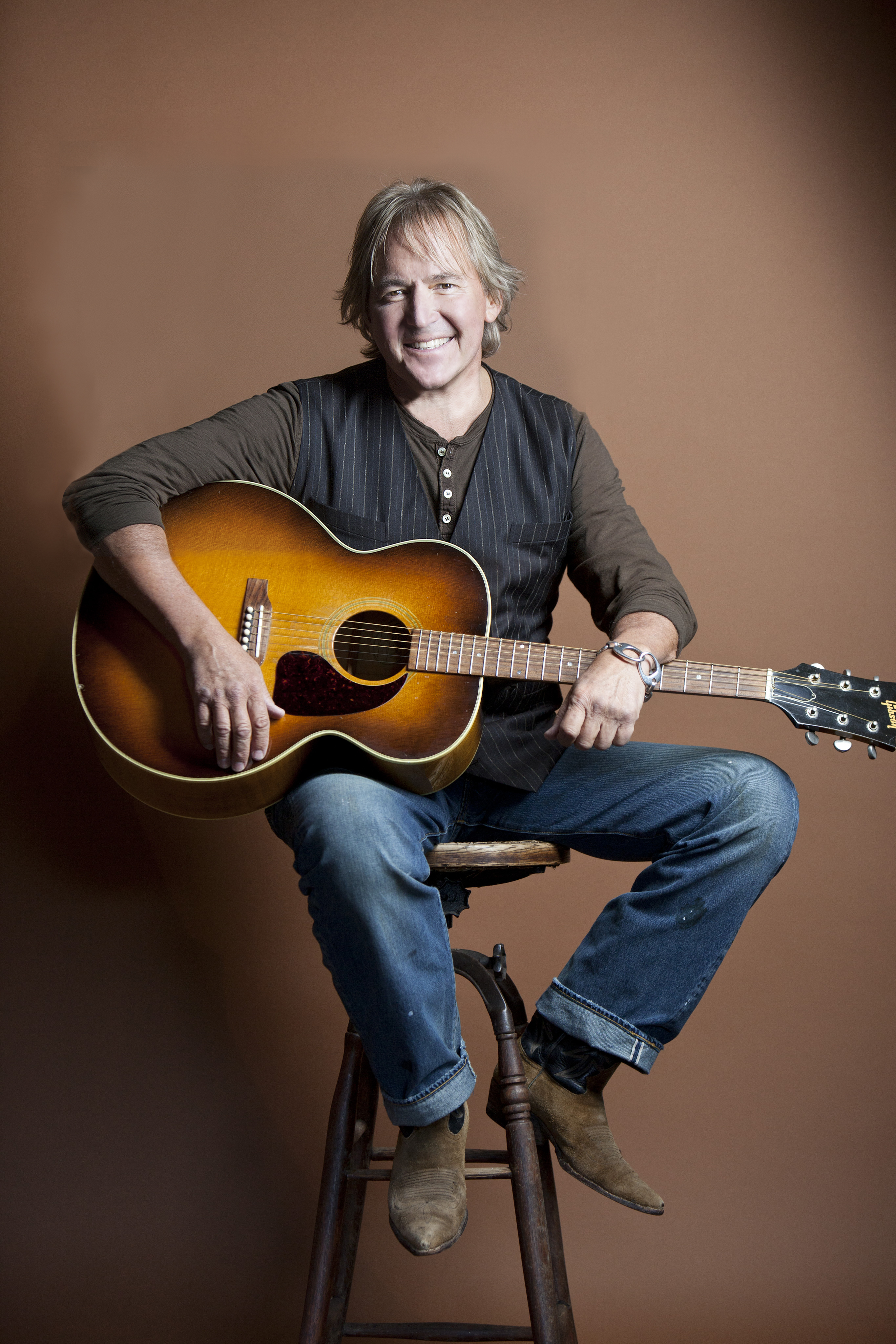 this is a photo of philip claypool, taken in 2013.